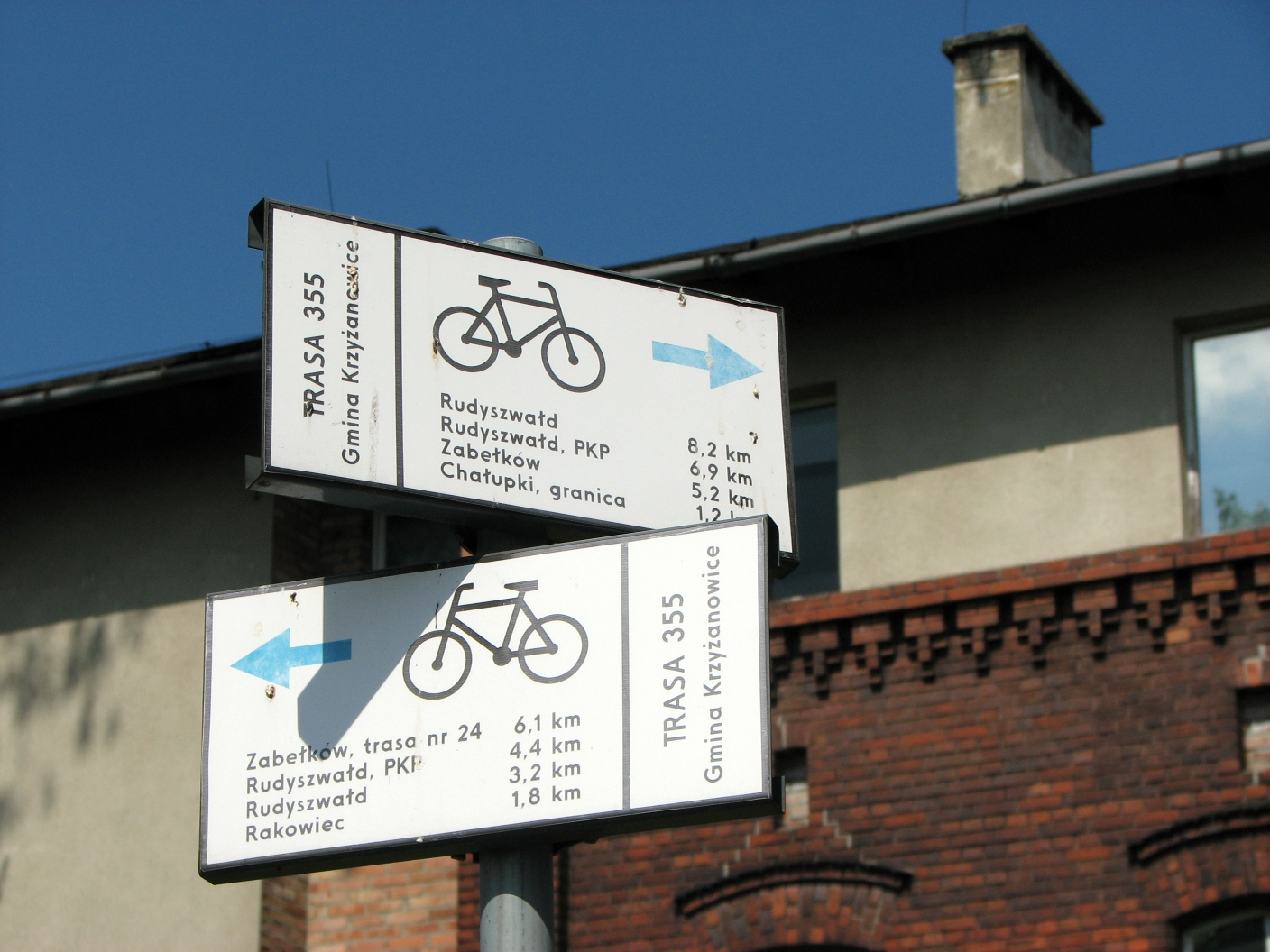 Chałupki PKP